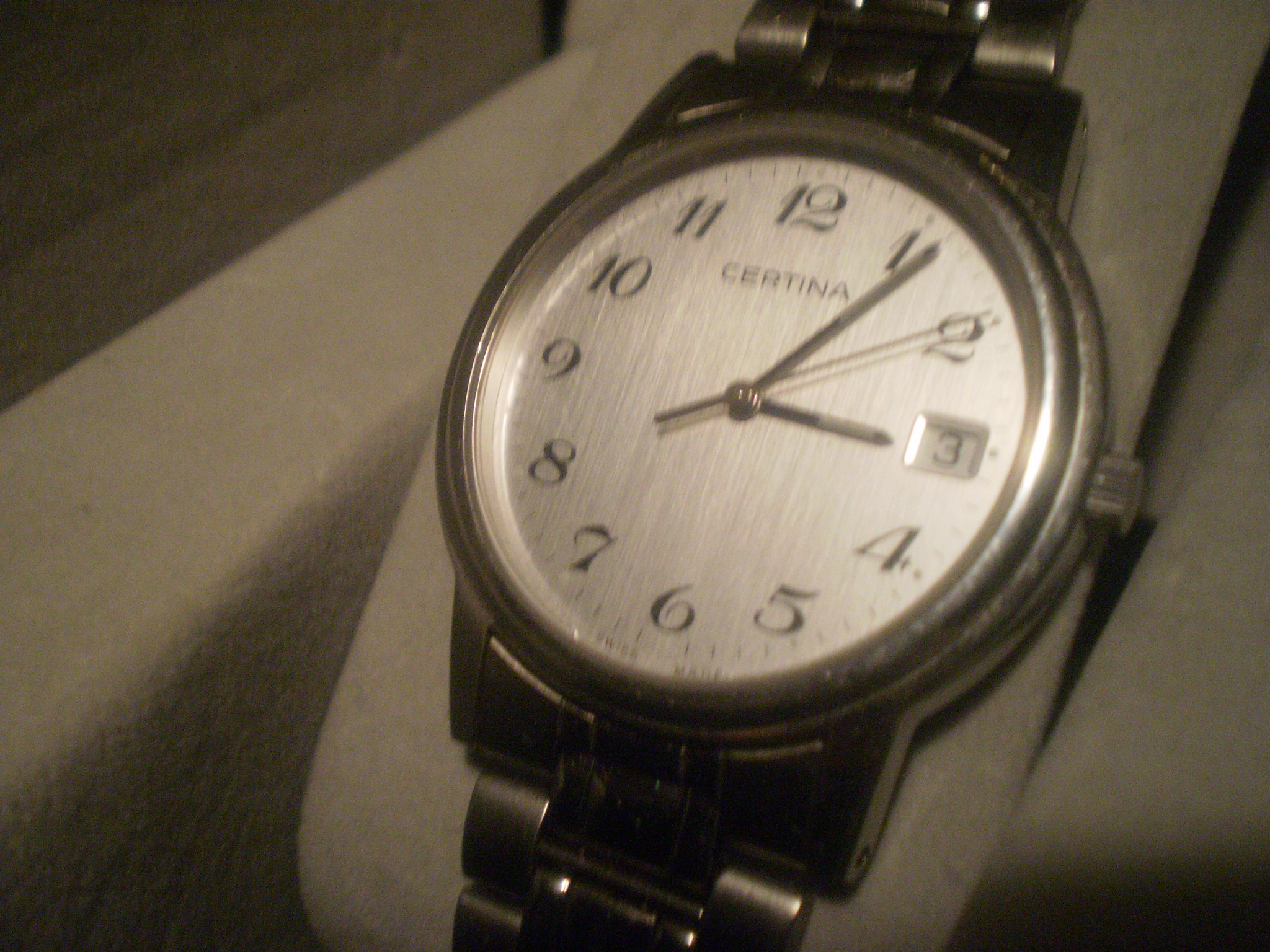 Wrist watch Certina Basic